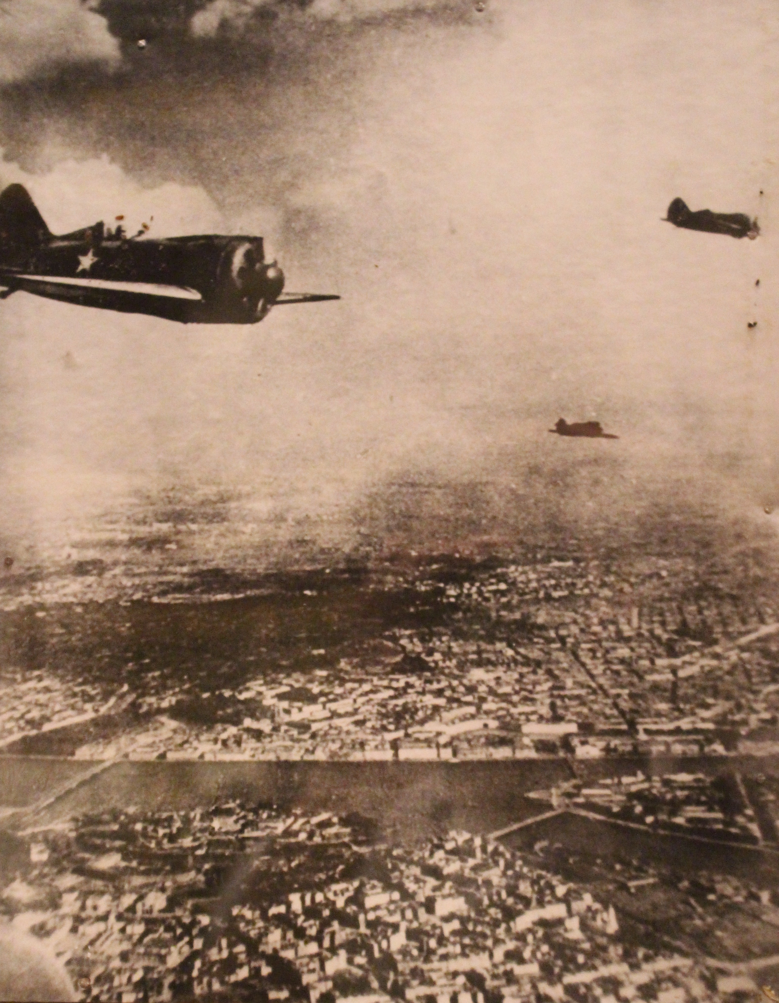 State Memorial Museum of Defence and Siege of Leningrad, Saint Petersburg